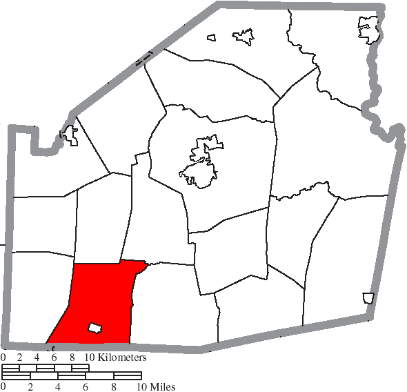 Map of the municipal and township boundaries of Highland County, Ohio, United States, as of the 2000 census, with the location of Whiteoak Township highlighted. Township borders are shown only in unincorporated areas in order to differentiate incorporated and unincorporated areas more clearly.